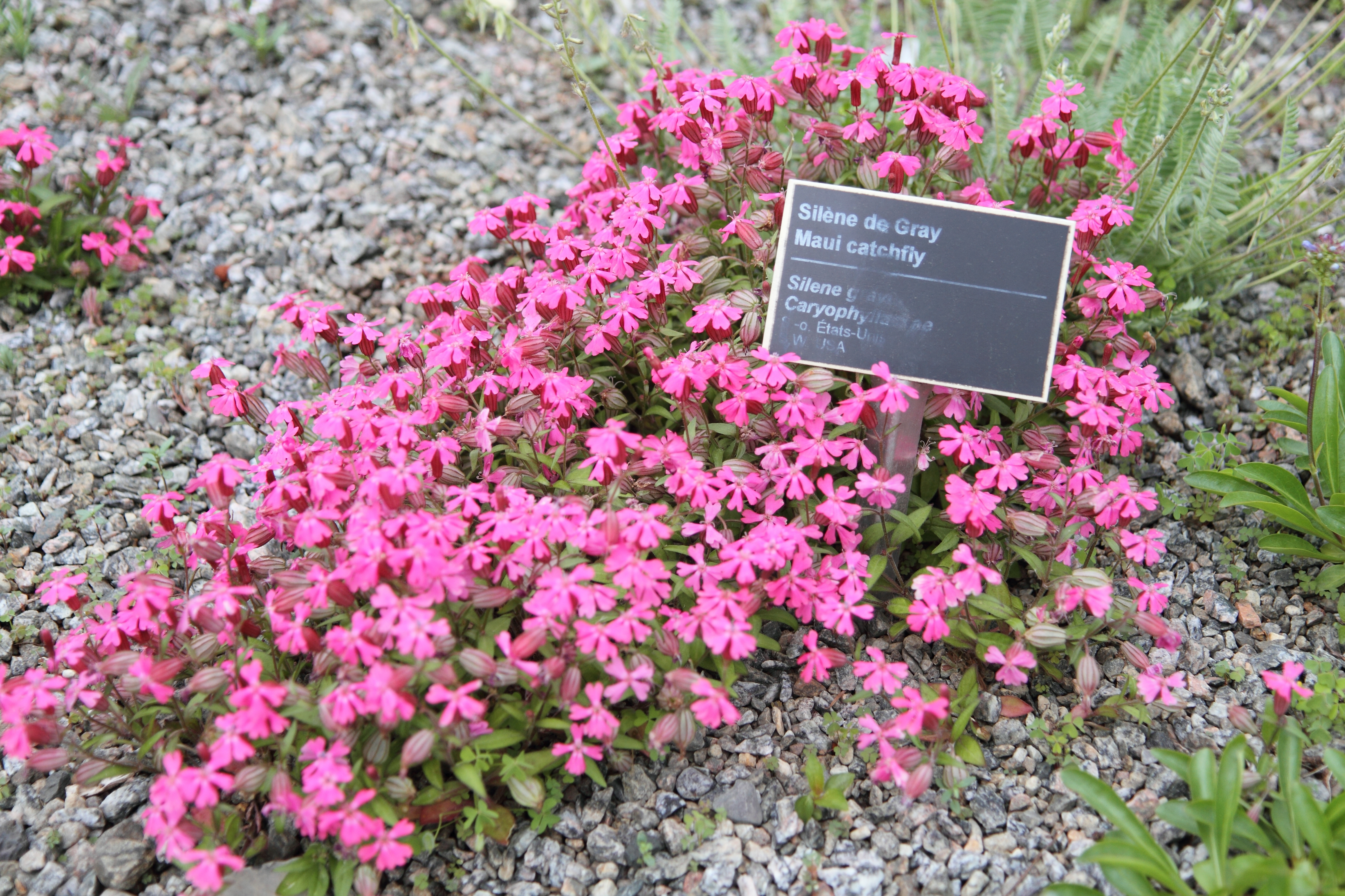 Silene grayi, Montreal Botanical Garden, Montreal, Quebec